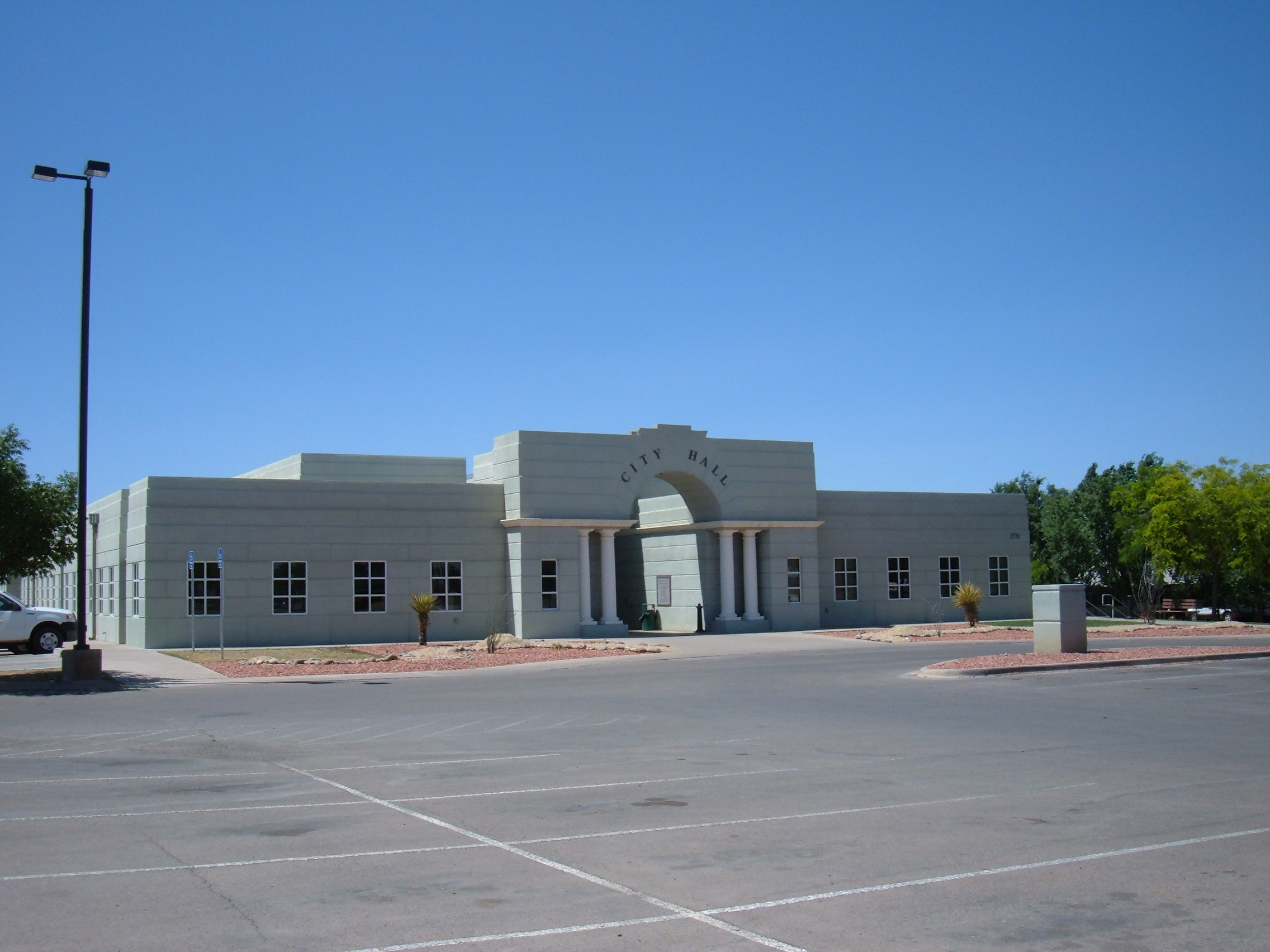 Alamogordo, New Mexico city hall building, located at 1376 E. 9th Street